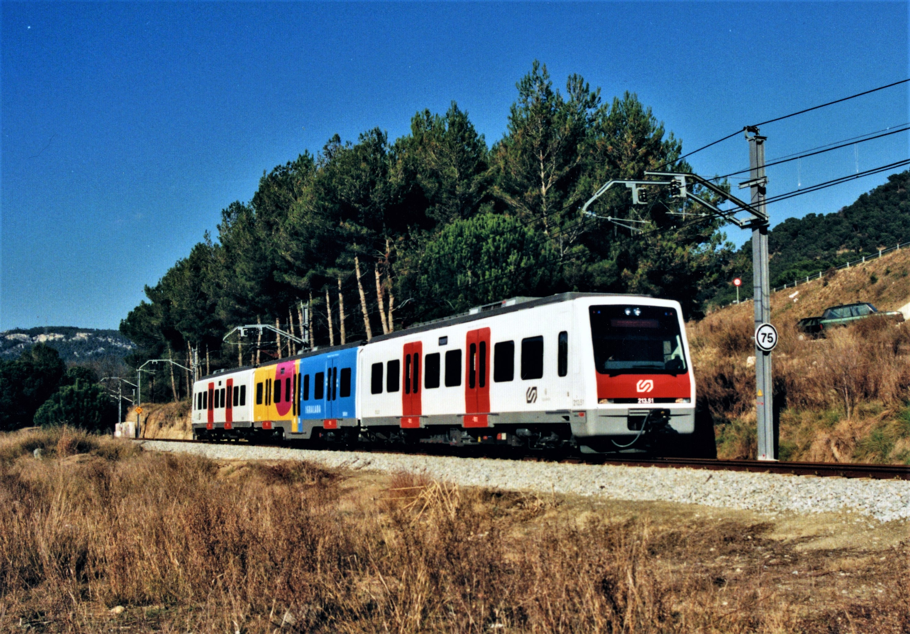 The EMU 213.01 of Ferrocarrils de la Generalitat de Catalunya, between Capellades and La Pobla de Claramunt, working the TA02 train from Igualada to Martorell Enllaç, transporting the authorities during the inauguration of the new trains and the electrification of the Igualada branch line.